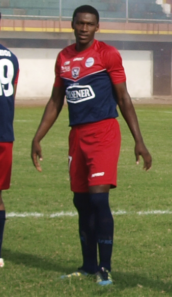 Santi Medina jugando en el Venecia de Babahoyo en 2012